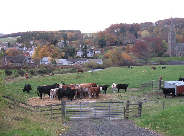 Stow A major influence on this fast growing village is the Gala Water. Behind the camera are several new houses, with more to come. The old town centre can be seen opposite, beside the churches (the old ruined one is not visible). Between the two parts, cattle still graze on flood prone land. Note the raised bank alongside the river.